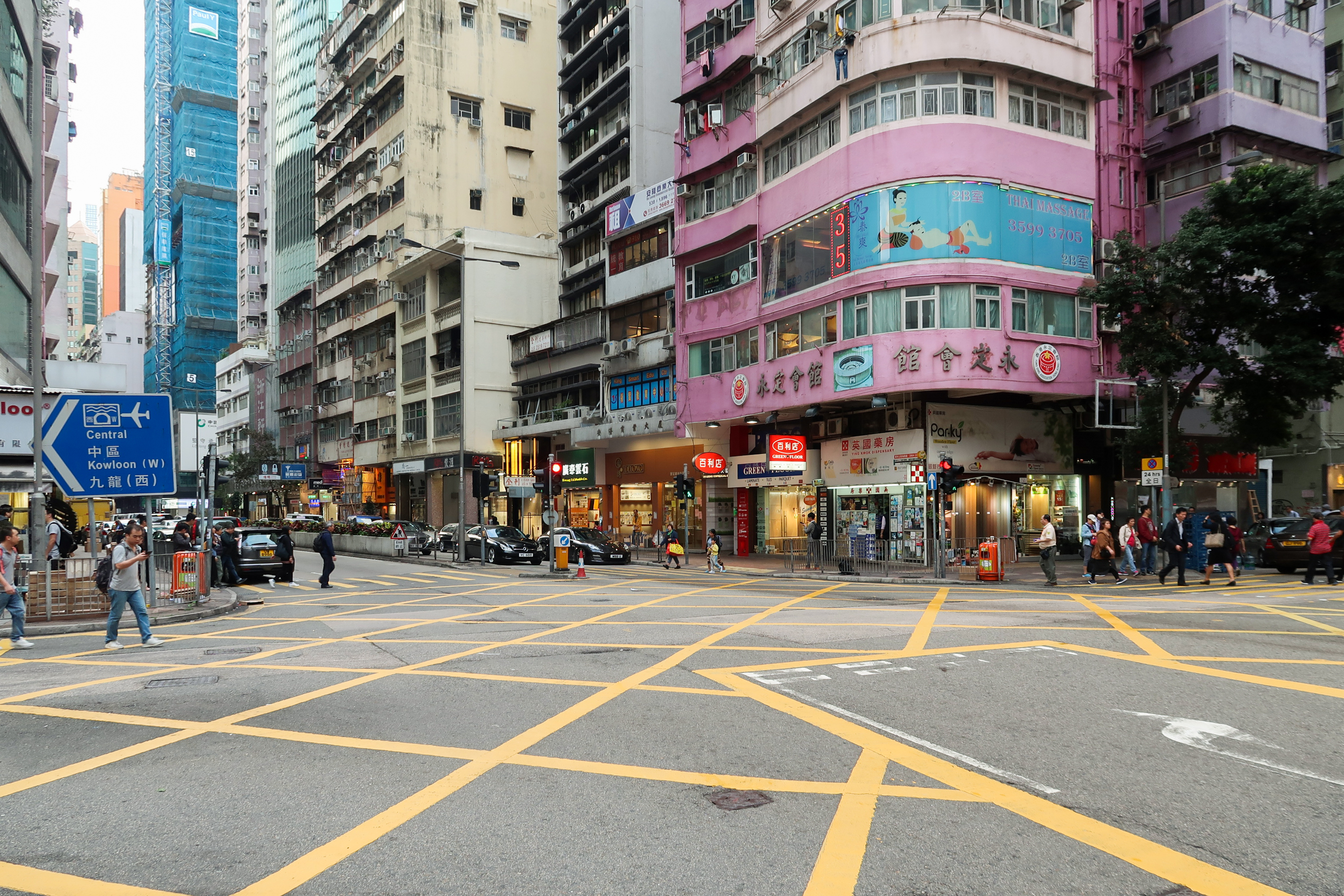 Lockhart Road near Stewart Road